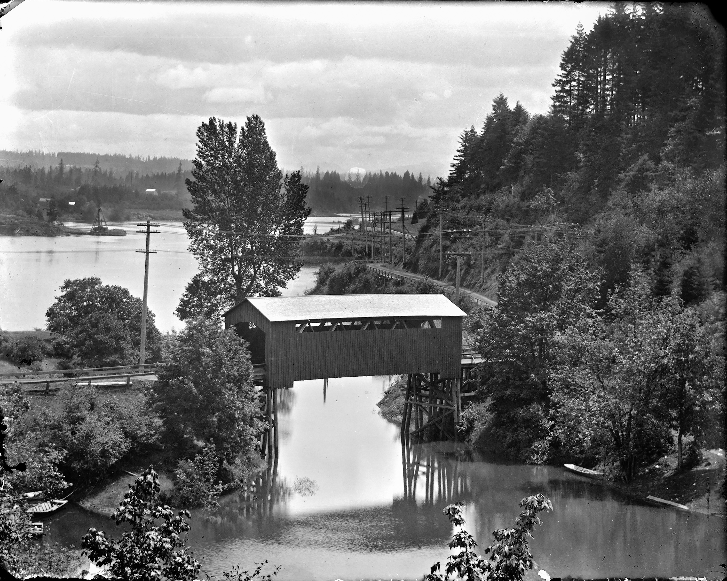 Photo by Will Bickner 1920s